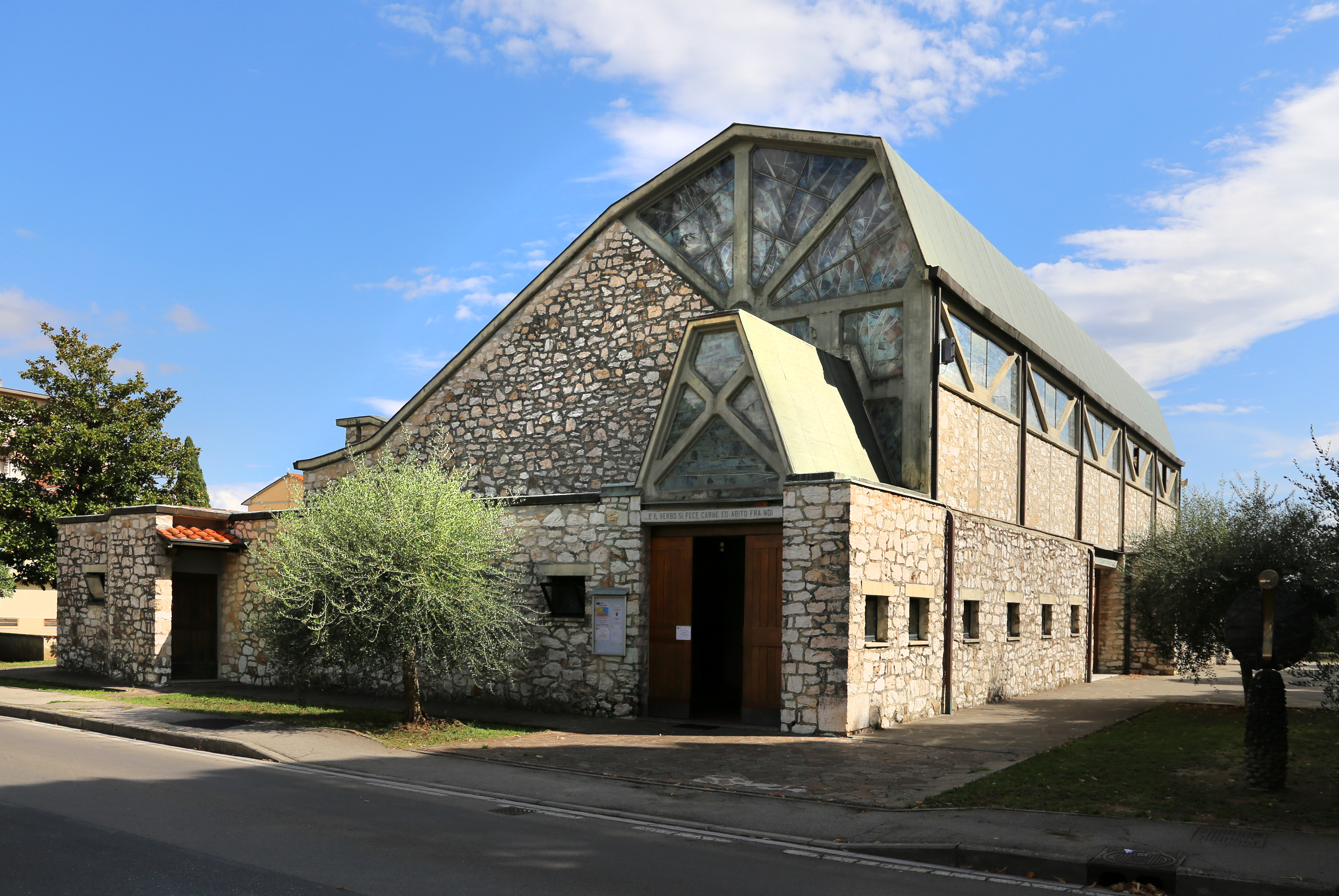 Sacro Cuore Immacolato di Maria (Pistoia)